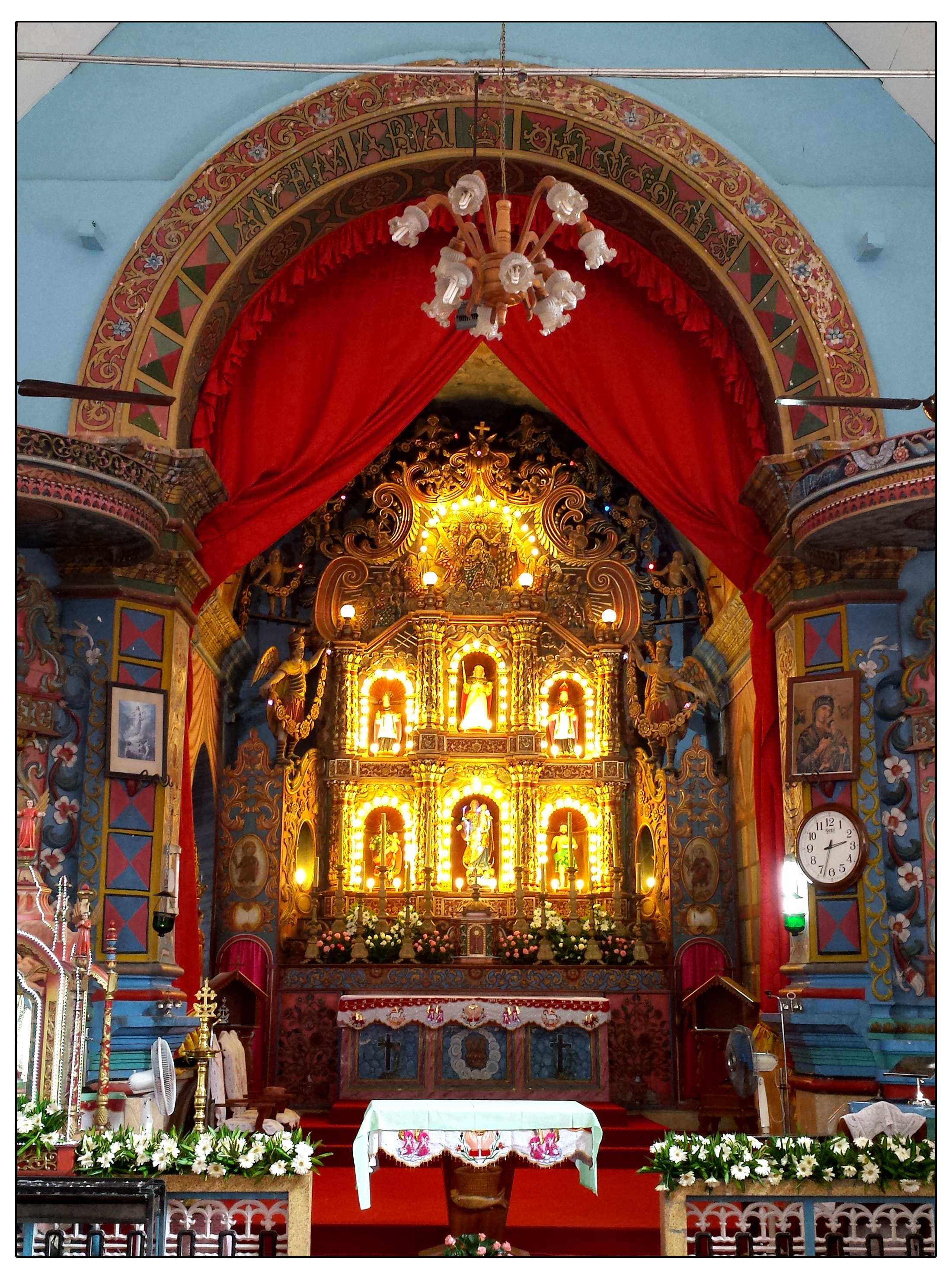 Sanctuary of Kaduthuruthy Knanaya Church built in 400 A.D. according to the folk history of the community. Later rebuilt during Portuguese colonization.